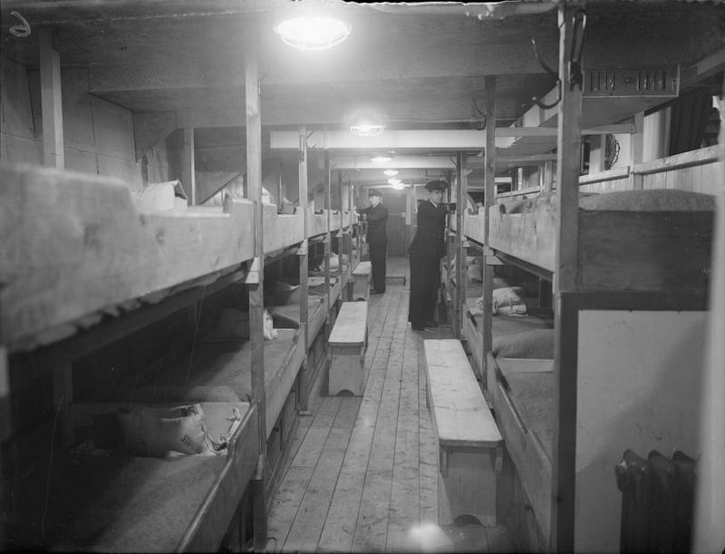 With a Rescue Ship. 19 To 22 February 1943, in the Clyde, Off Greenock, Showing Practice in Progress With the Ss Gothland, One of the Fleet Auxiliary Rescue Ships Which Sailed With Convoys When the U-boat War Was at Its Height. A general view of the survivor's quarters which is entirely separate from the crews quarters.